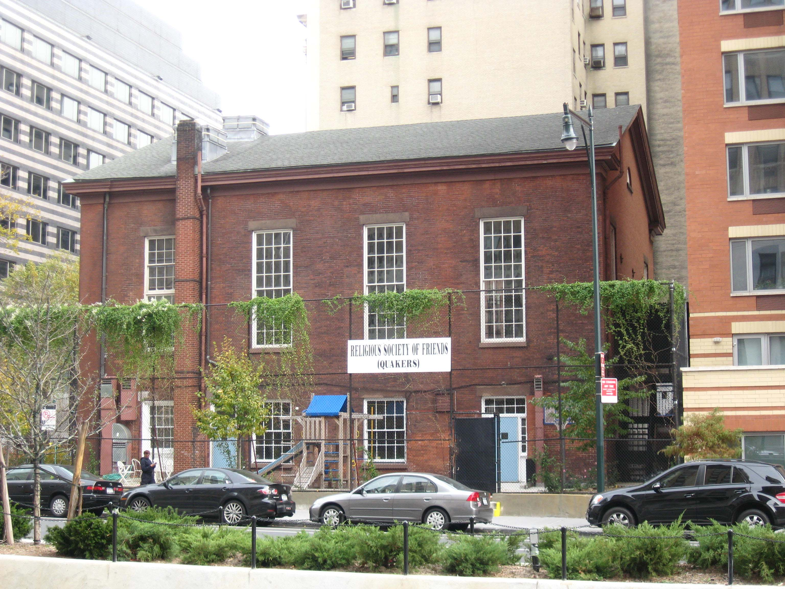 Looking east across Boerum Place at Quaker Meeting House on Schermerhorne Street on a cloudy afternoon, with NYC Transit Authority building in background left. NYCLPC designation 1981